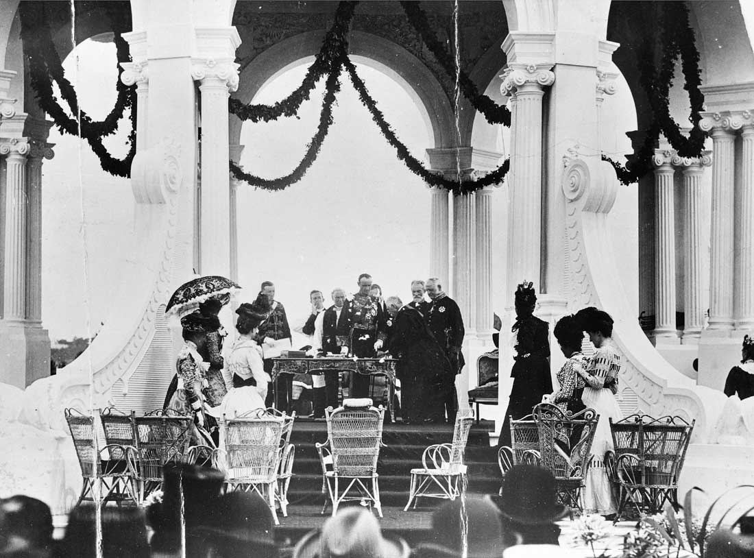 Photograph of the Governor-General, Lord Hopetoun, taking his oath of office